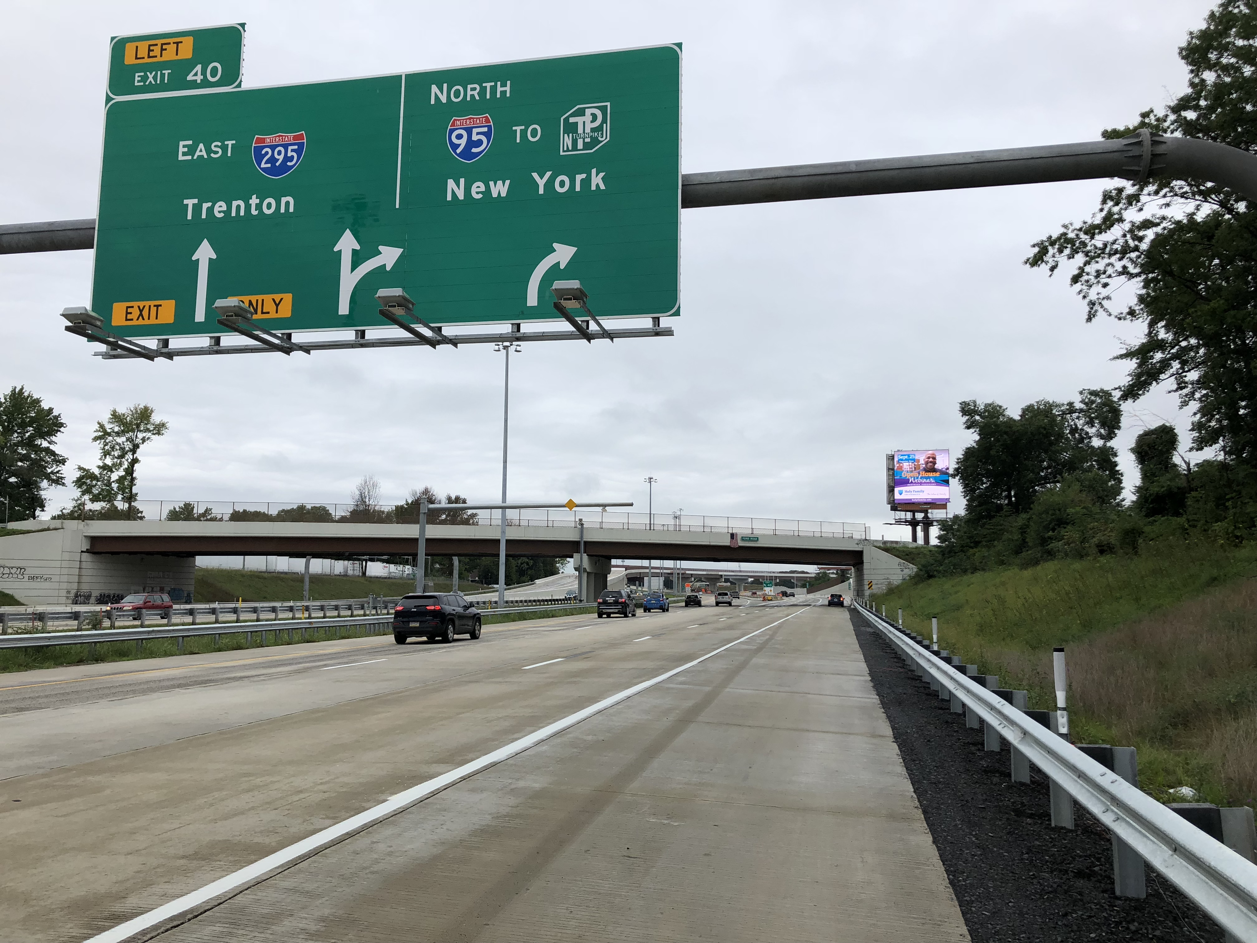 View north along Interstate 95 (Delaware Expressway) at Exit 40 (Interstate 295 EAST, Trenton) in Bristol Township, Bucks County, Pennsylvania